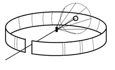 Scheme of a Debye-Scherrer camera. The powder sample is placed in a capillary at the center of the camera. The diffracted X-rays are recorded on a photographic film placed circularly around the sample.